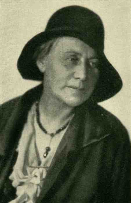 Emmy Remolt-Jessen.